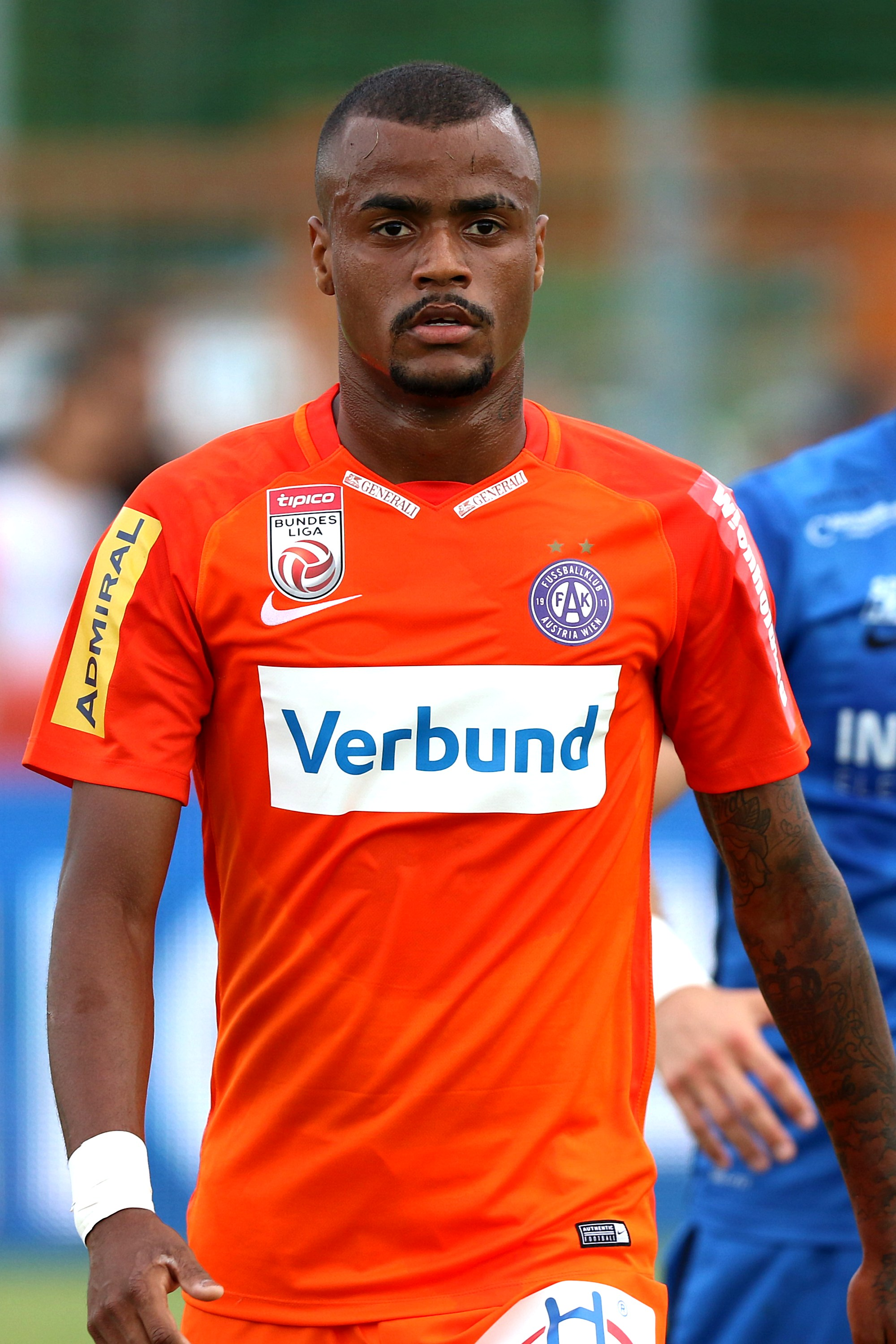 2017–18 Austrian Cup - ASK Ebreichsdorf (blue shirts) vs. FK Austria Wien (orange shirts) 0-0, penaltyscore 3-4. – The photo shows Felipe Pires